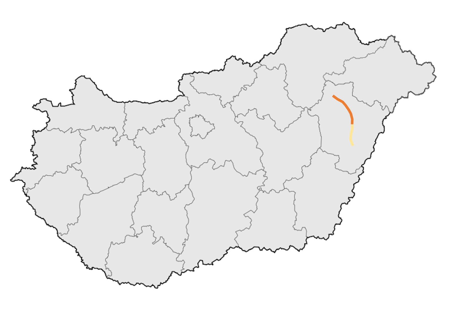 Traject the M35 Motorway, Hungary